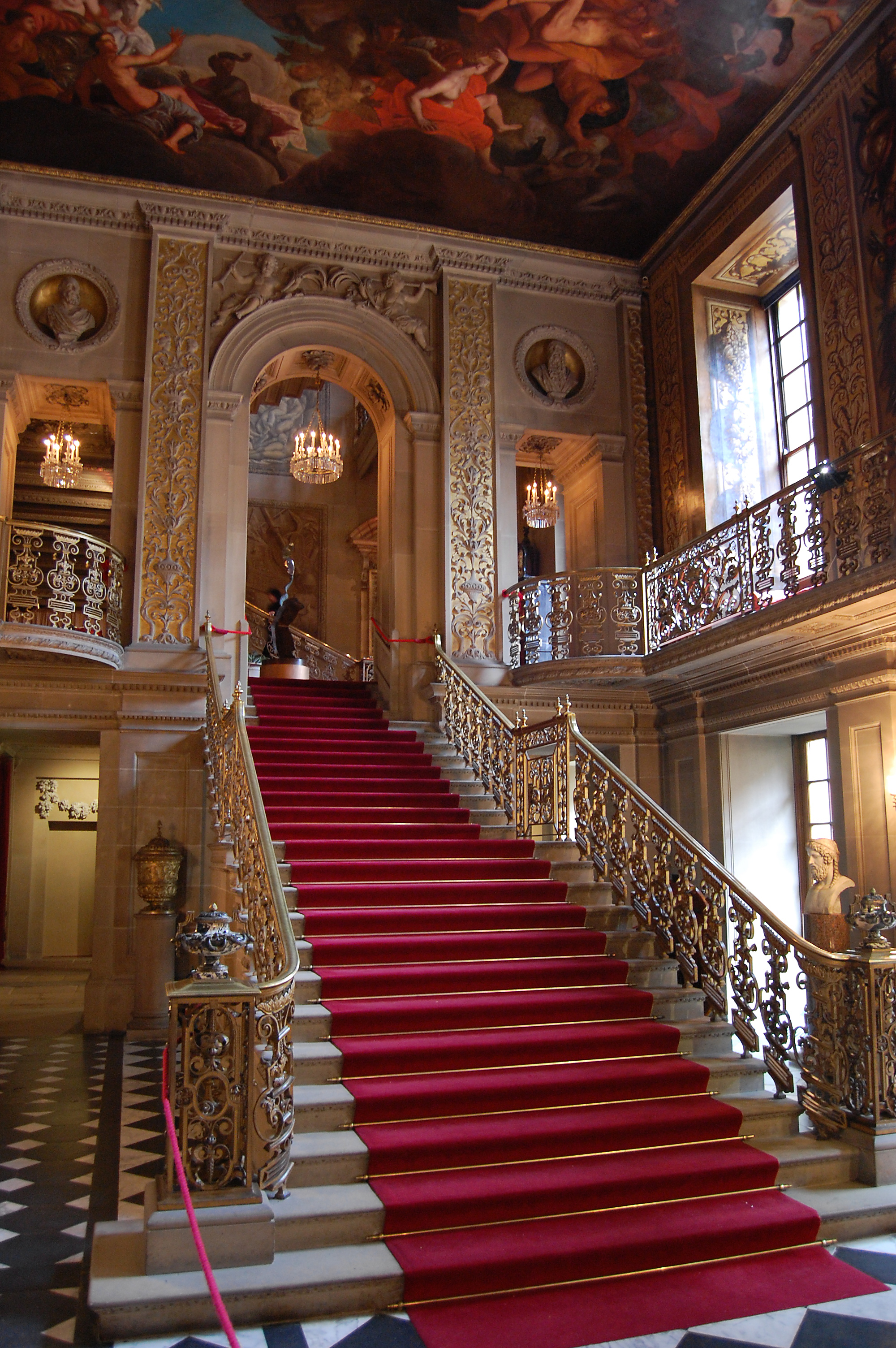 The main hallway of Chatsworth House.